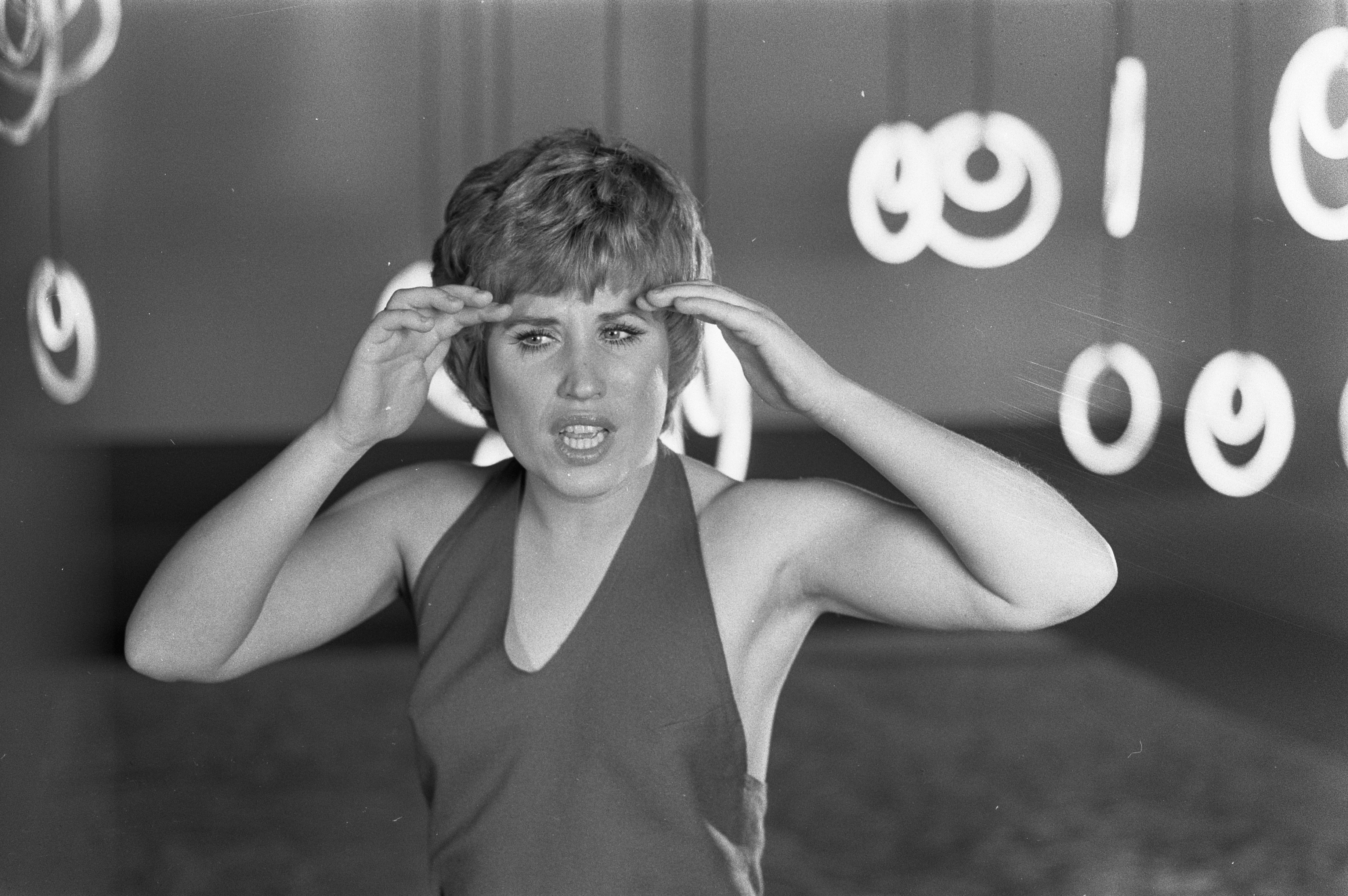 Dutch performer Jenny Arean. TV-show, 14 January 1972.